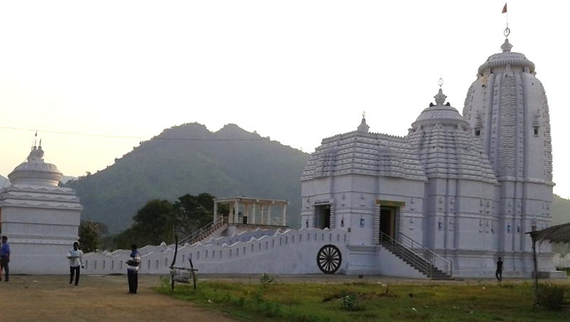 The photo which shows the other side view of the Jagannath temple, Durgi